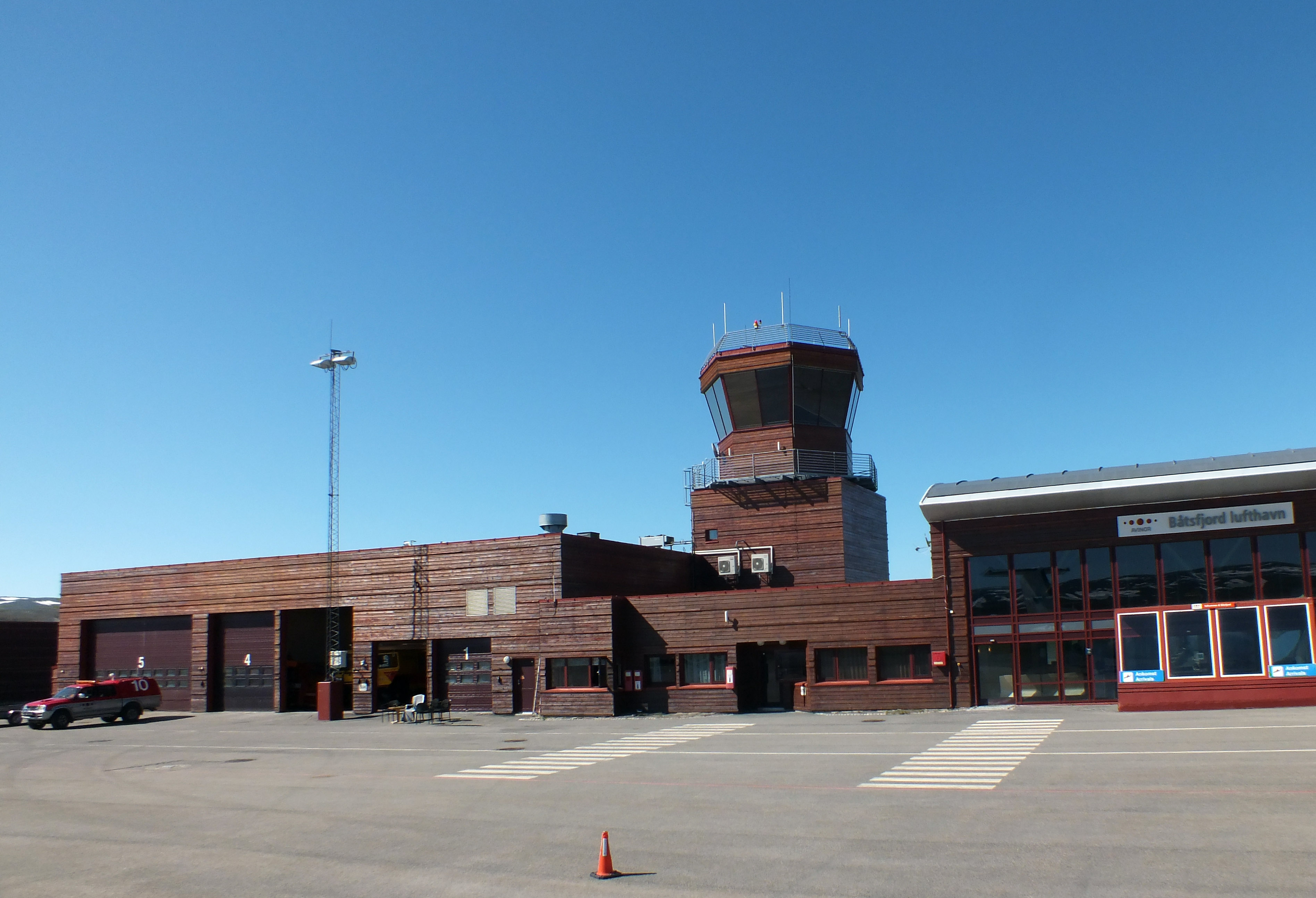 Båtsfjord lufthavn, 2013